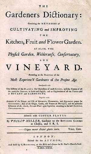 The Gardeners Dictionary: Containing the Methods of Cultivating and Improving the Kitchen, Fruit and Flower Garden.title QS:P1476,en:"The Gardeners Dictionary: Containing the Methods of Cultivating and Improving the Kitchen, Fruit and Flower Garden." label QS:Len,"The Gardeners Dictionary: Containing the Methods of Cultivating and Improving the Kitchen, Fruit and Flower Garden."